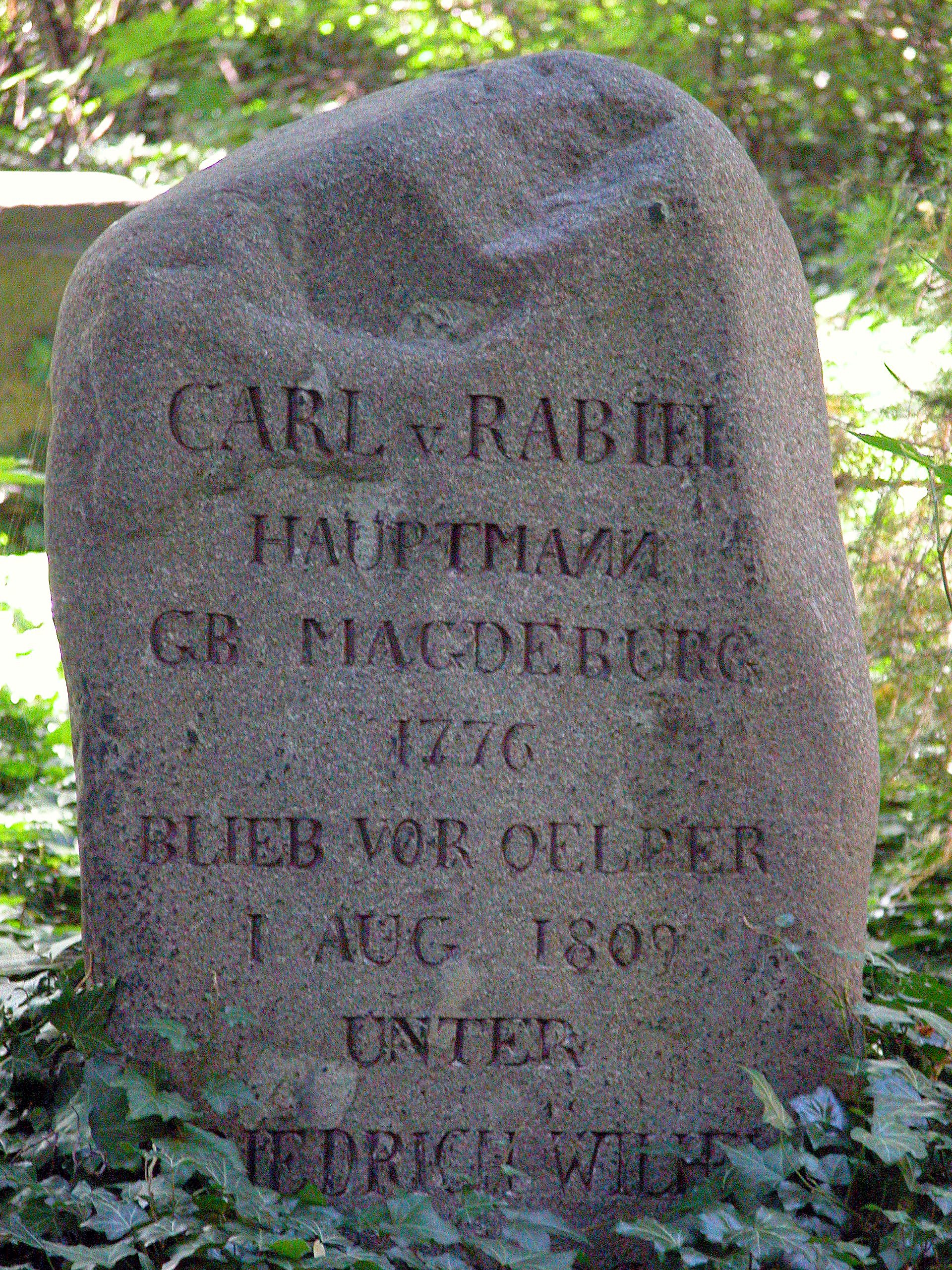 Braunschweig, Germany: Cemetery of the Monastery of the Cross: Tombstone of Captain Carl von Rabiel. (The Picture was taken on European Heritage Open Days, 10 September 2006.)